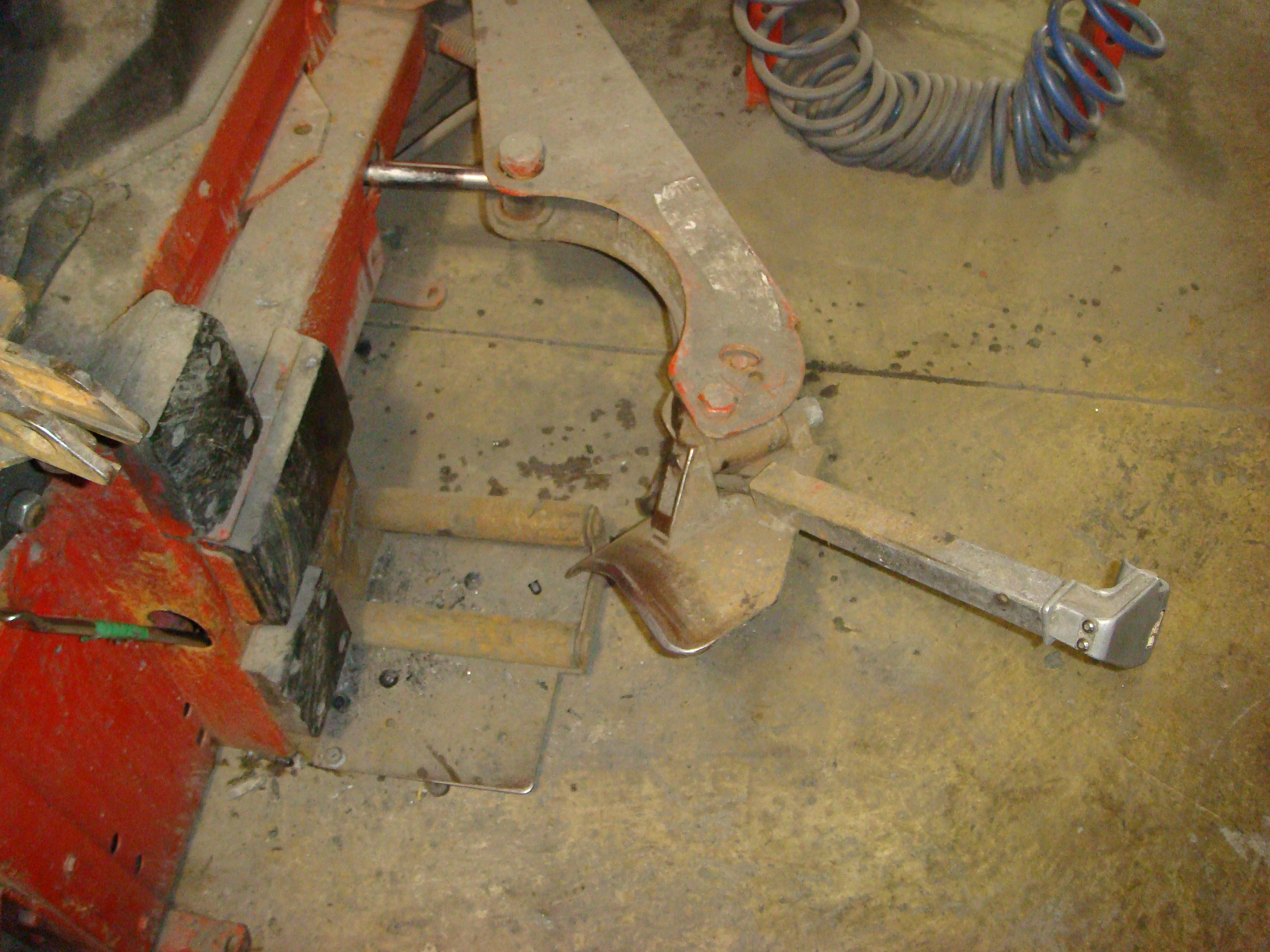 Bead loosening device on a tire changer.